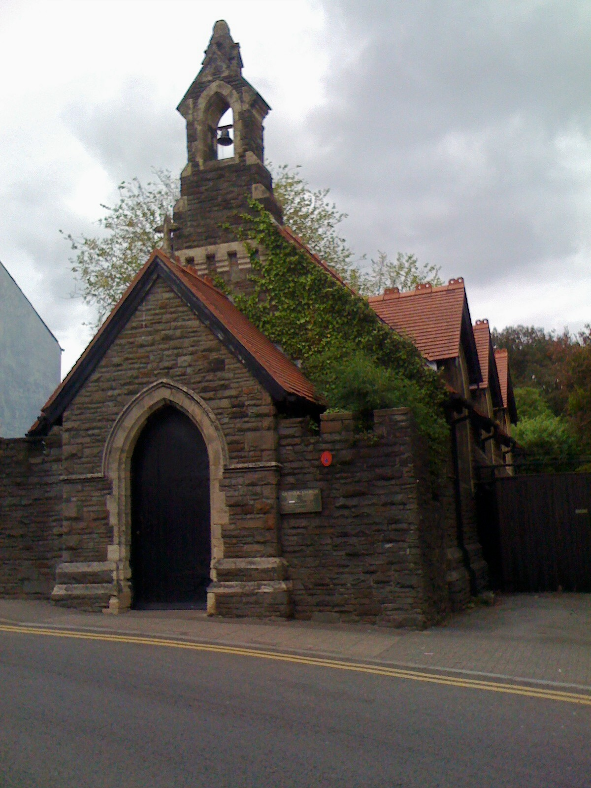 Caerleon-Catholic Church